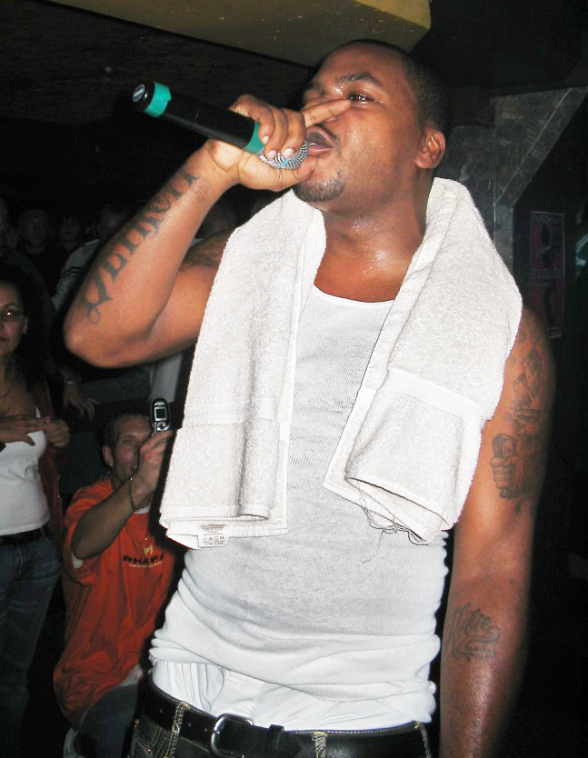 Picture of Obie Trice taken at his concert in Victoria, BC in 2006.